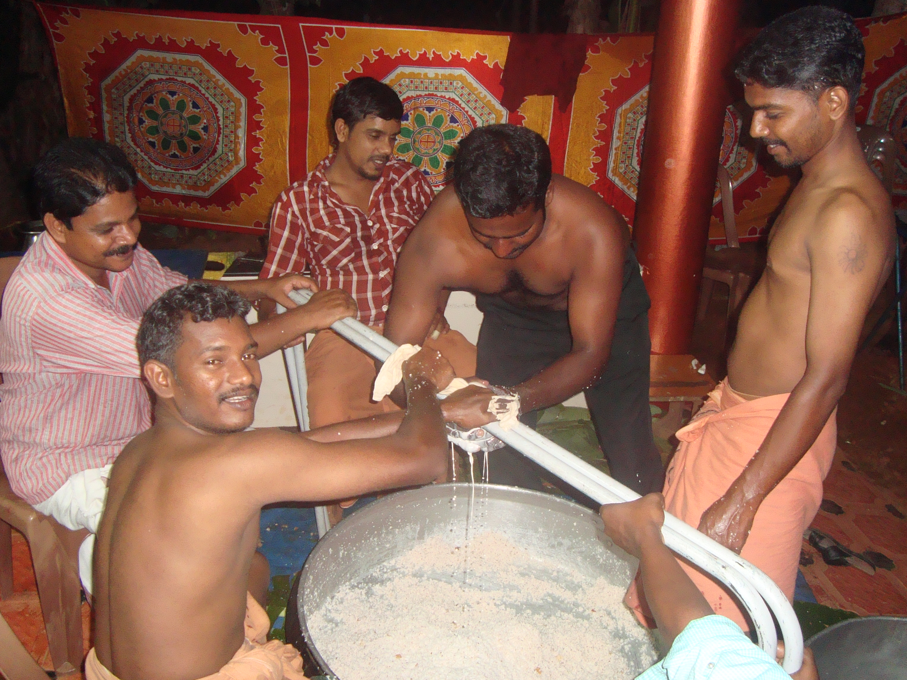 Making Coconut Milk for Payasam for a Sadya in Keralam